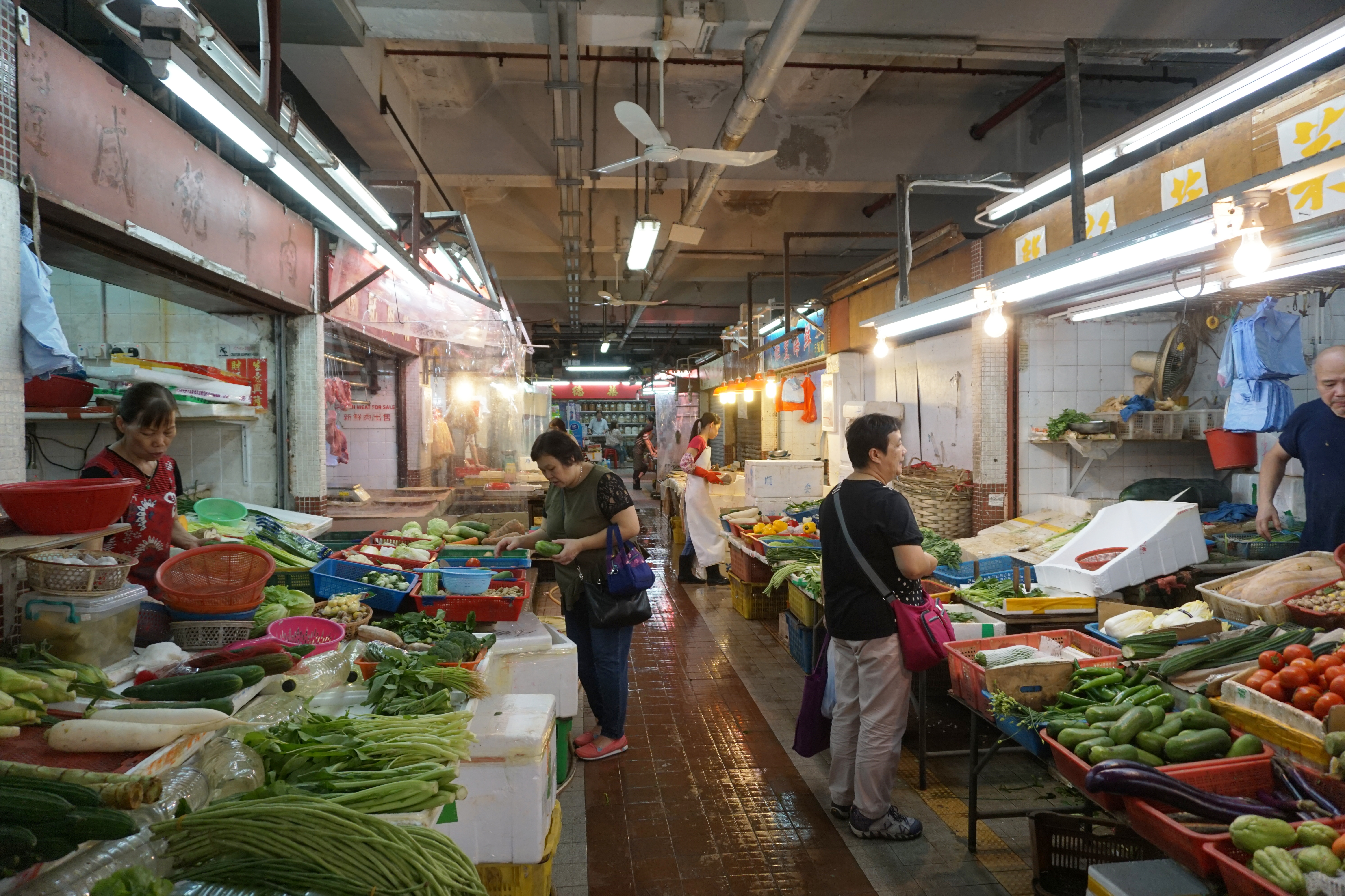 Tsui Ping Market in Kwun Tong, Hong Kong.